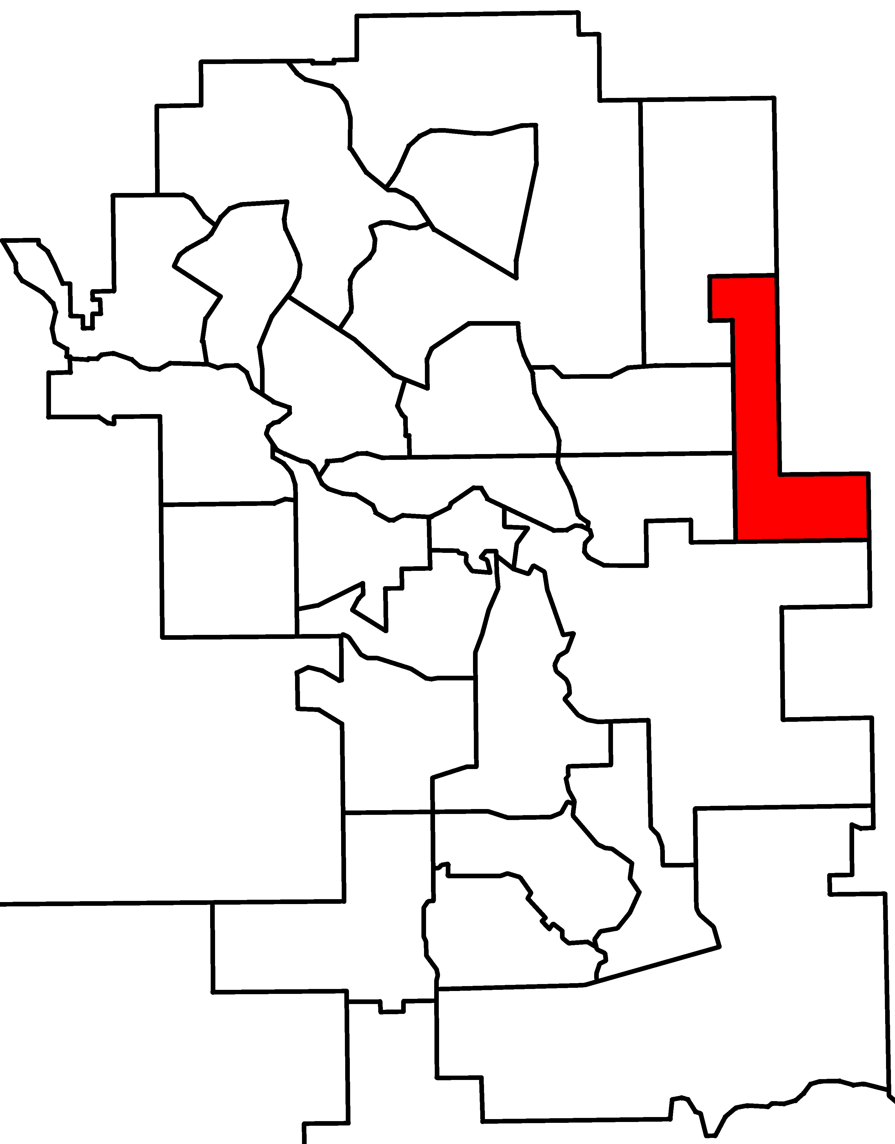 A map of Alberta provincial electoral districts, effective 2010, in the Calgary area. Calgary-Greenway is highlighted in red.